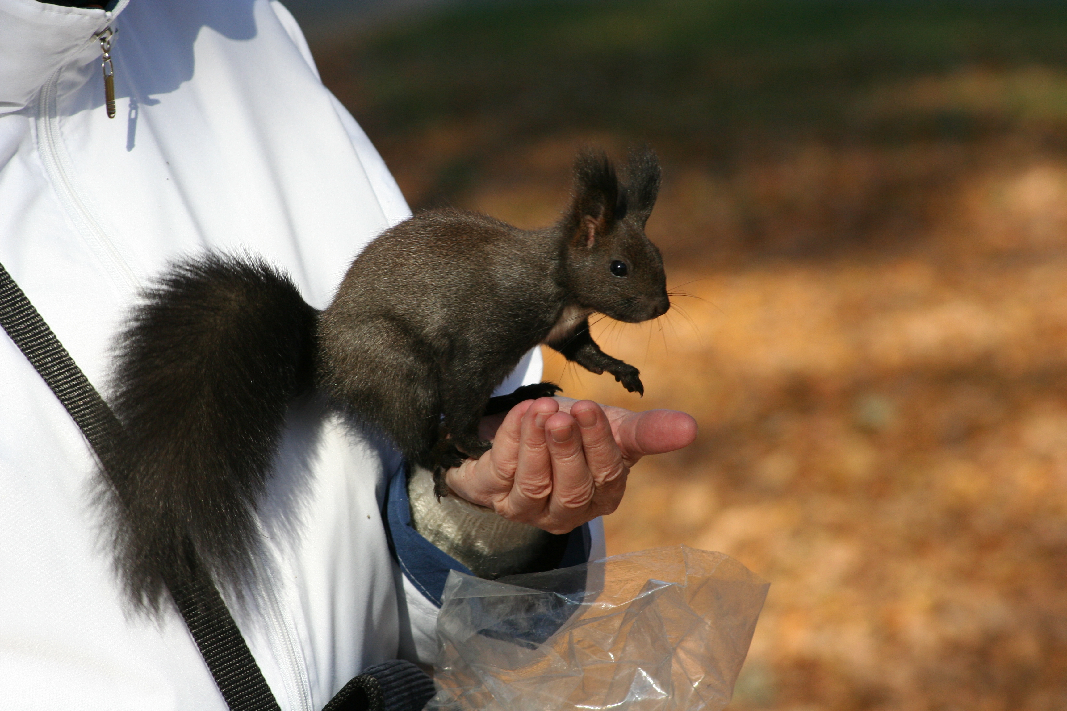 Sciurus vulgaris (Eurasian red squirrel) - photograph taken in Cieplice Spa near Jelenia Góra. Late October 2005.